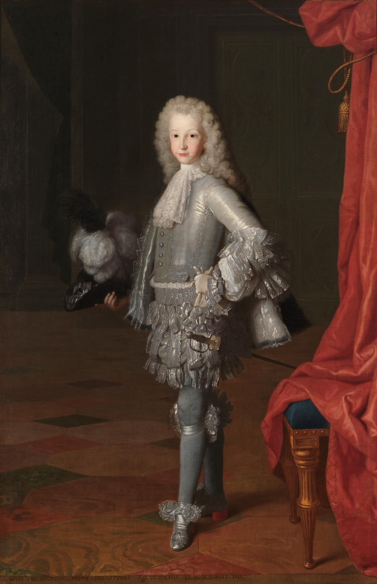 Louis I (Spanish: Luis I de Borbón, 25 August 1707 – 31 August 1724) was King of Spain from 14 January 1724 until his death. His reign is recorded as one of the shortest in history, as he was king for just over seven months. He was the eldest son of King Philip V of Spain by his first queen consort, Maria Luisa of Savoy.